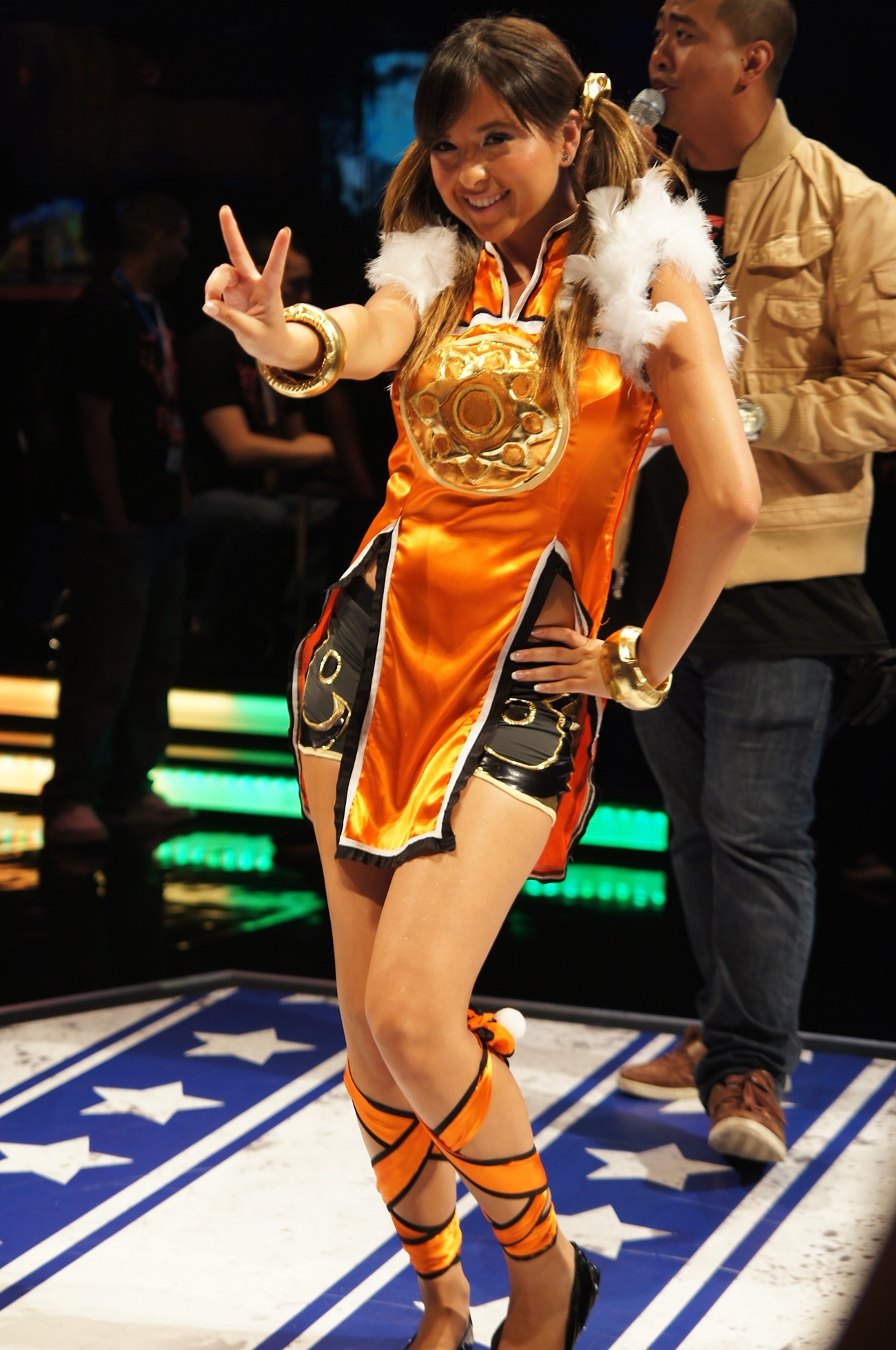 Promotion of the fighting game Tekken Tag Tournament 2 at Electronic Entertainment Expo 2012.